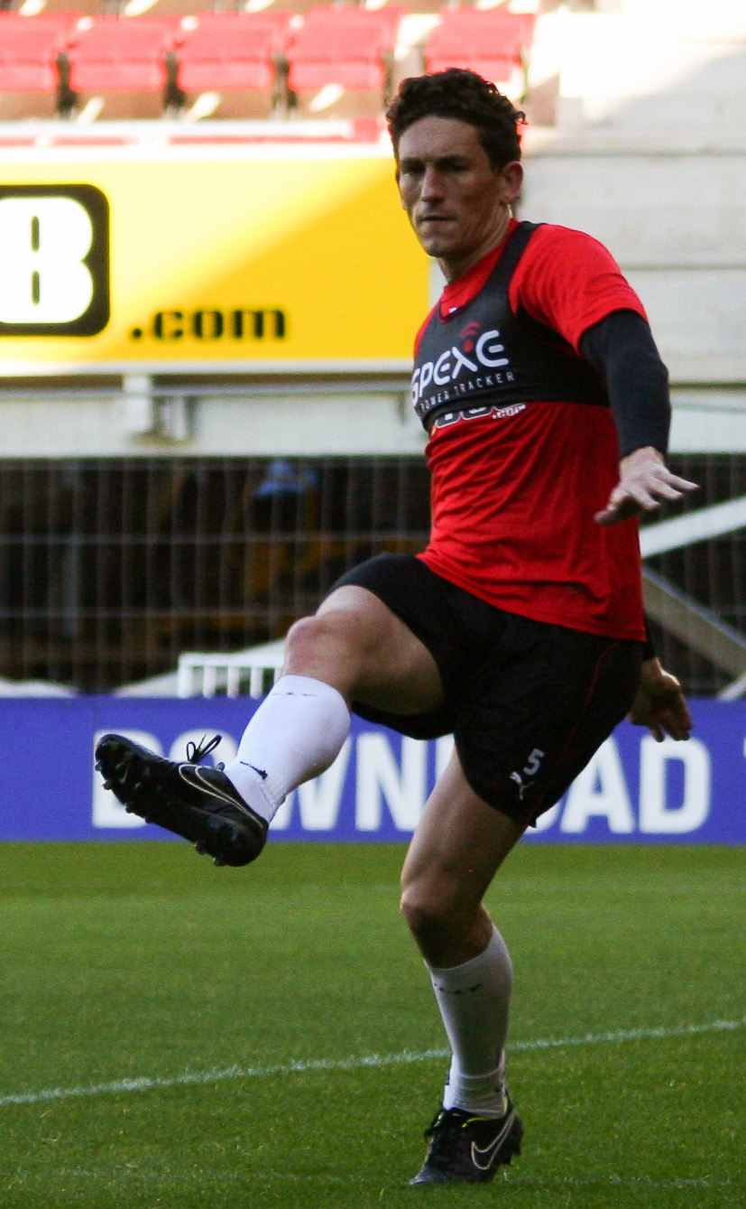 Keith Andrews at Watford's open training on 28 October 2014.